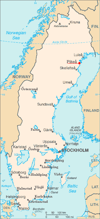 Piteå in Sweden